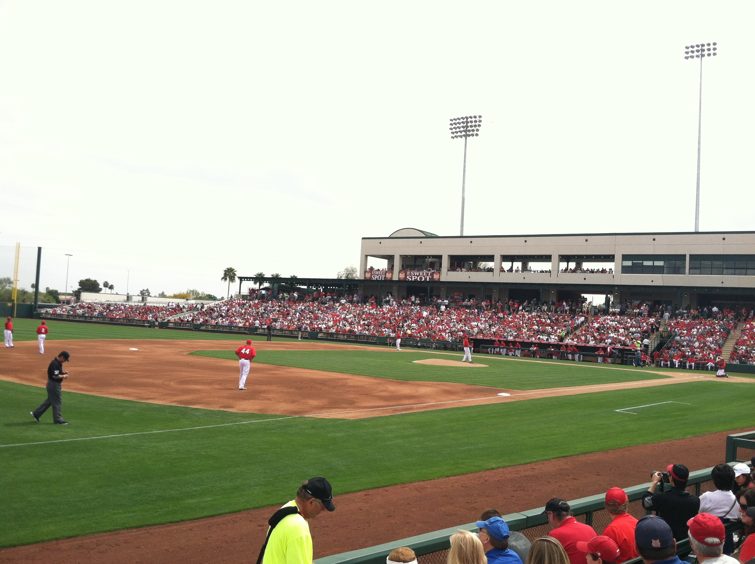 Picture of Tempe Diablo Stadium, before an Angels Spring Training Game in 2012.